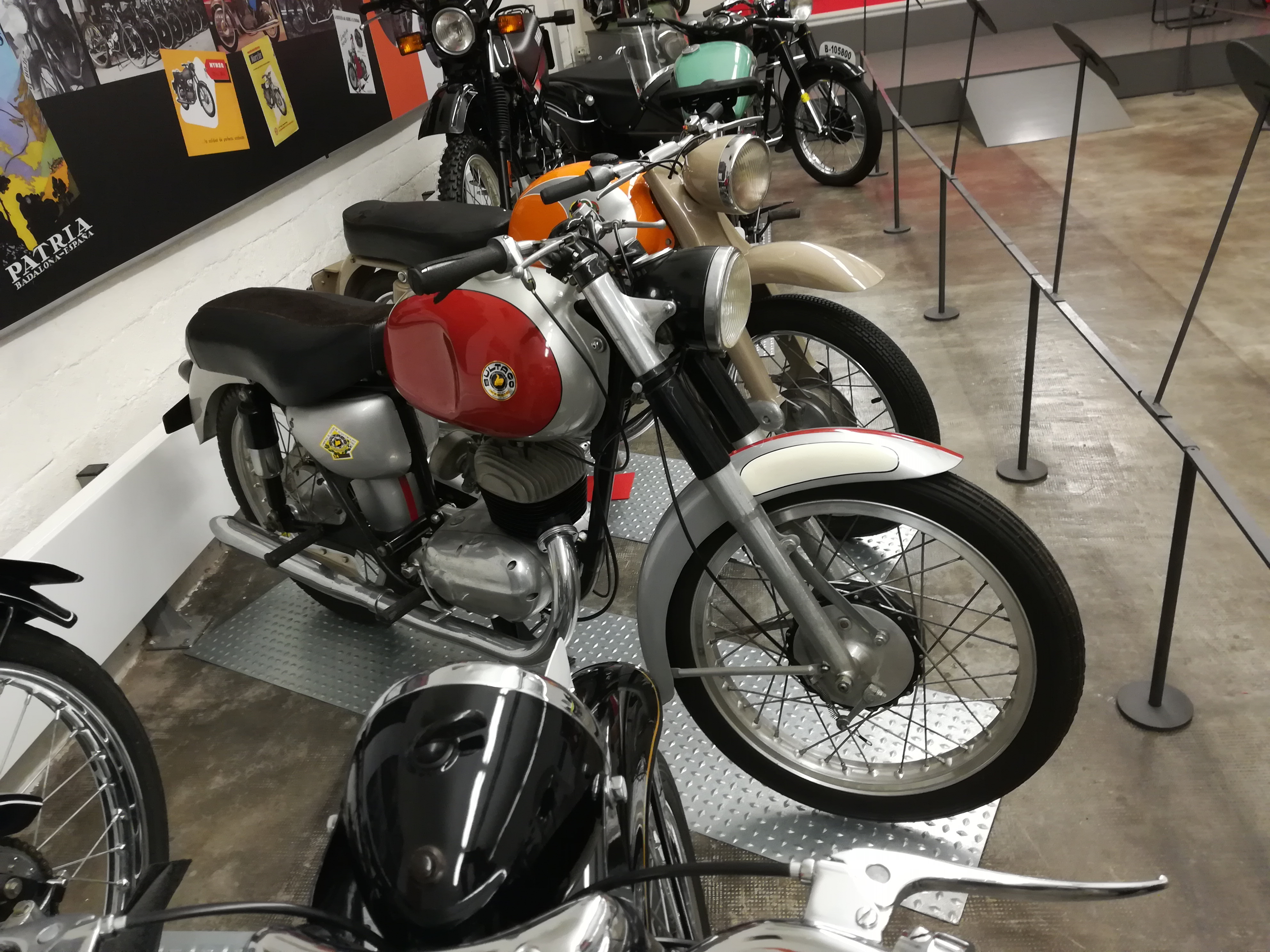 Bultaco Tralla 101 by 1959